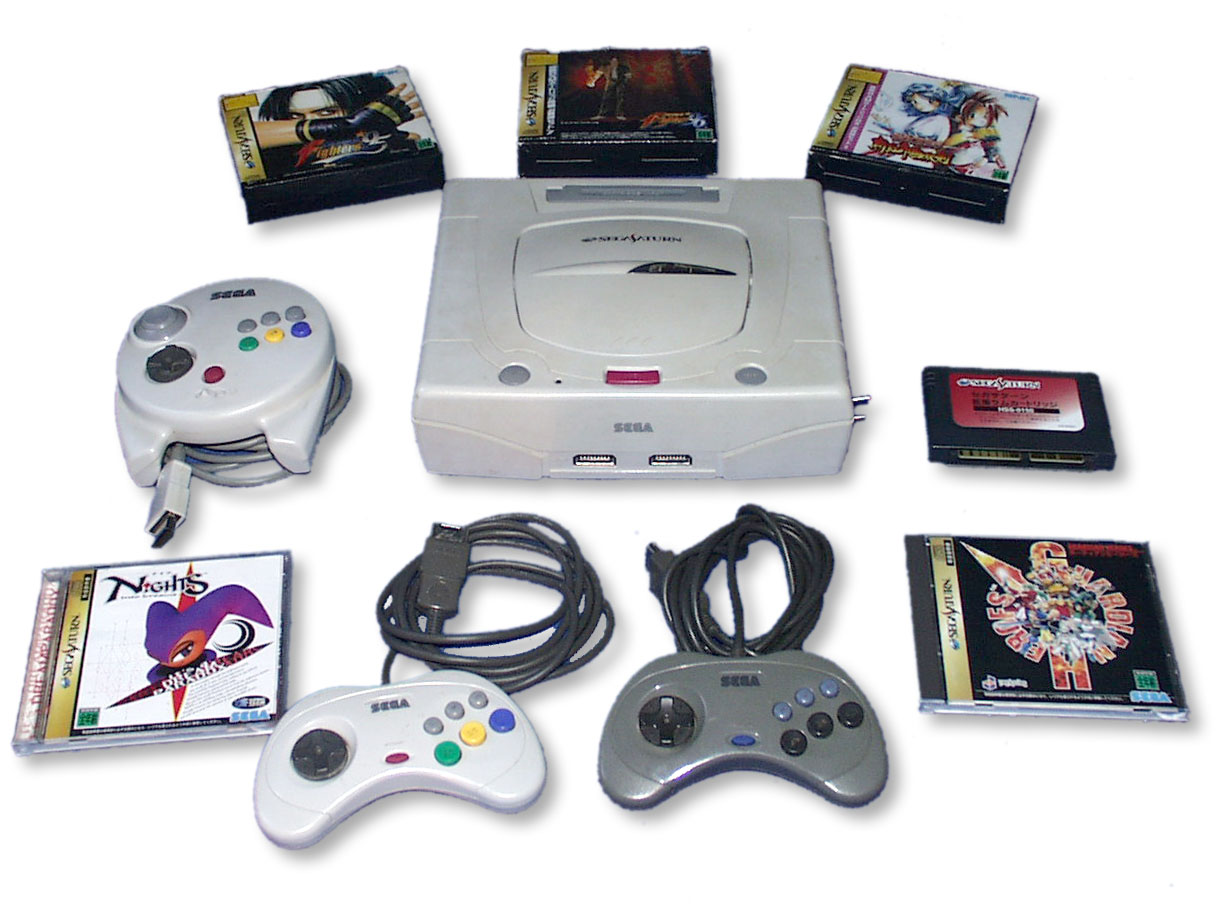 Japanese Sega Saturn, white version, second generation